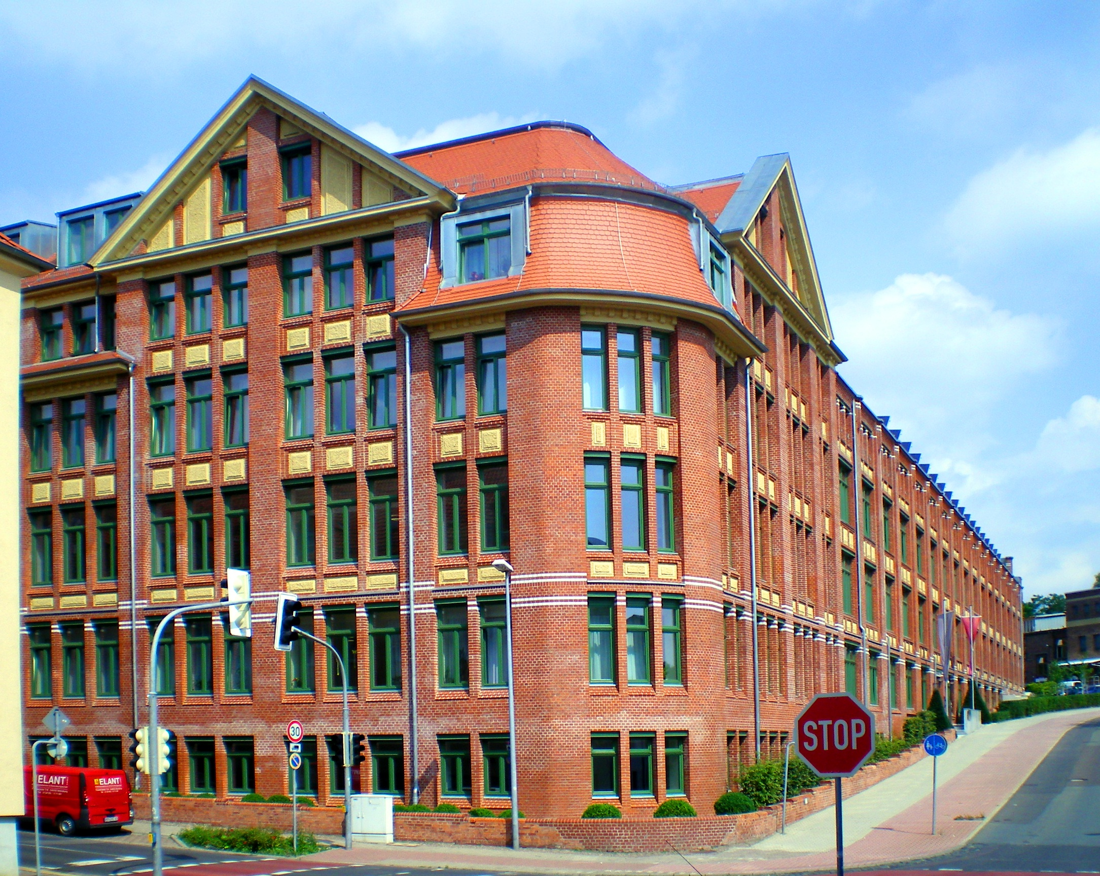 Origin sewing machine factory Dietrich in residence city and city of Skat Altenburg/Thuringia